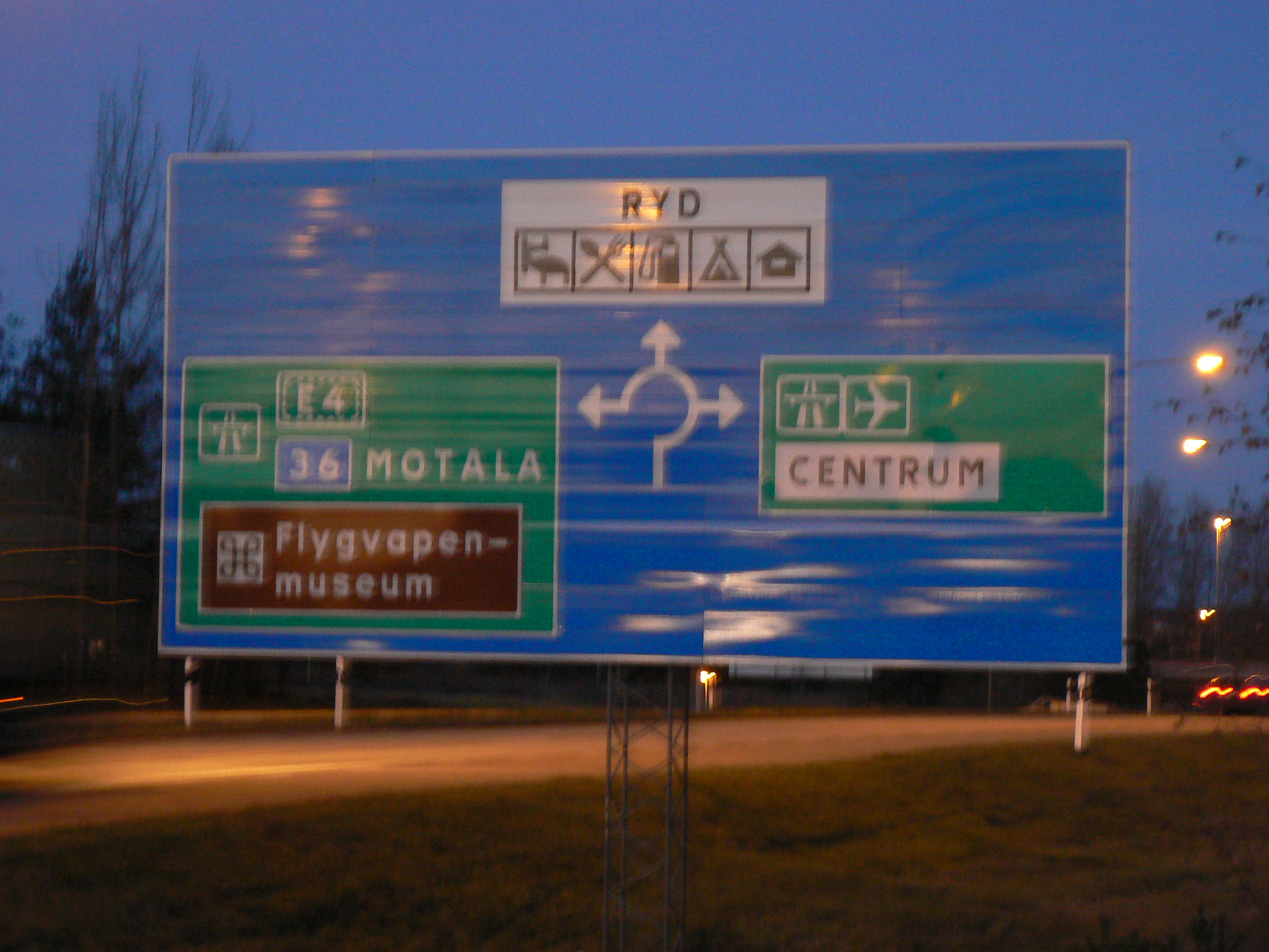 Signing on Swedish National road 34 to prepare for Rydsrondellen (Ryd roundabout). Photo by: Skvattram 2006-11-09